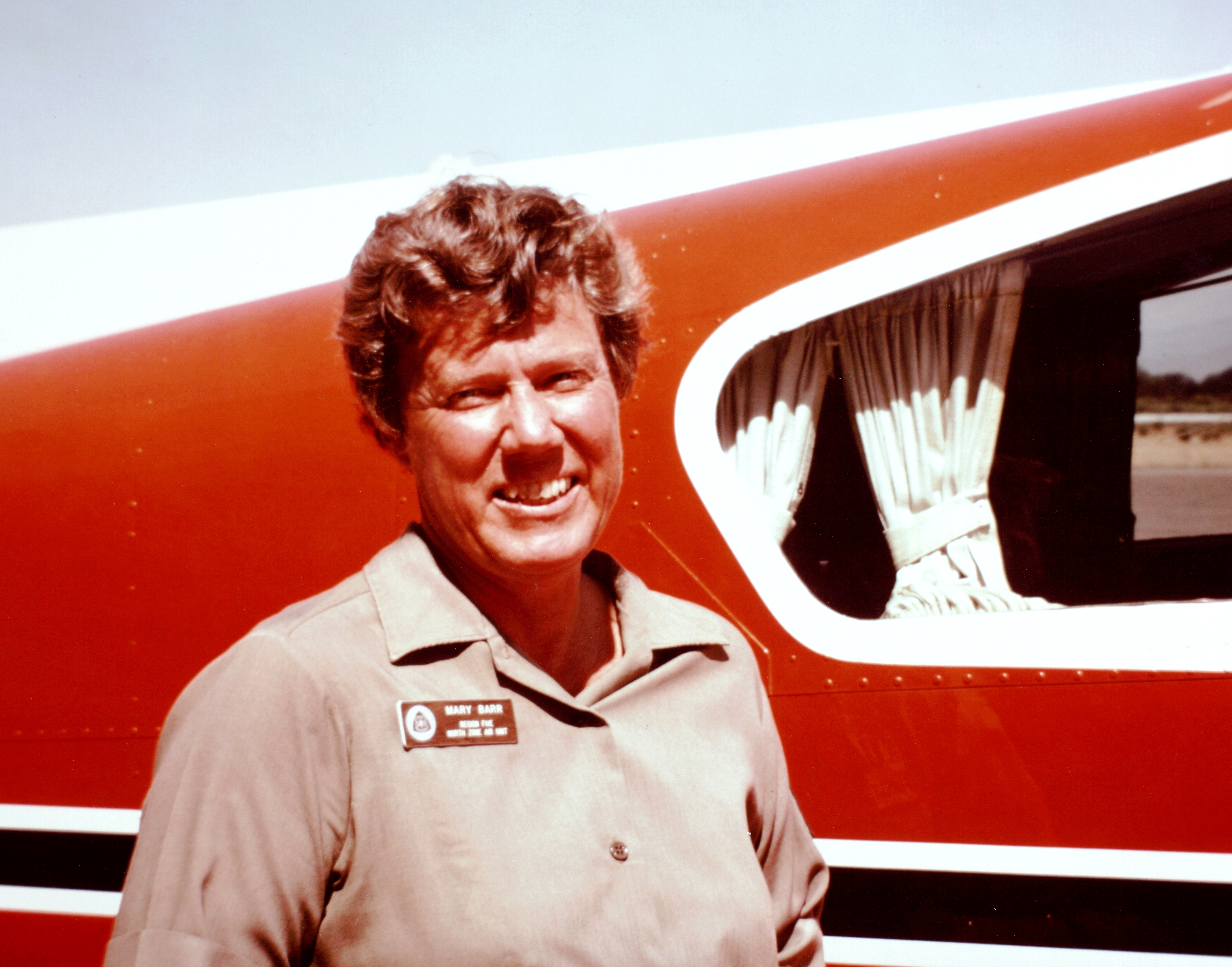 This is a photo of Mary Barr after joining the US Forest Service. This photo depicts her standing next to her transport plane.